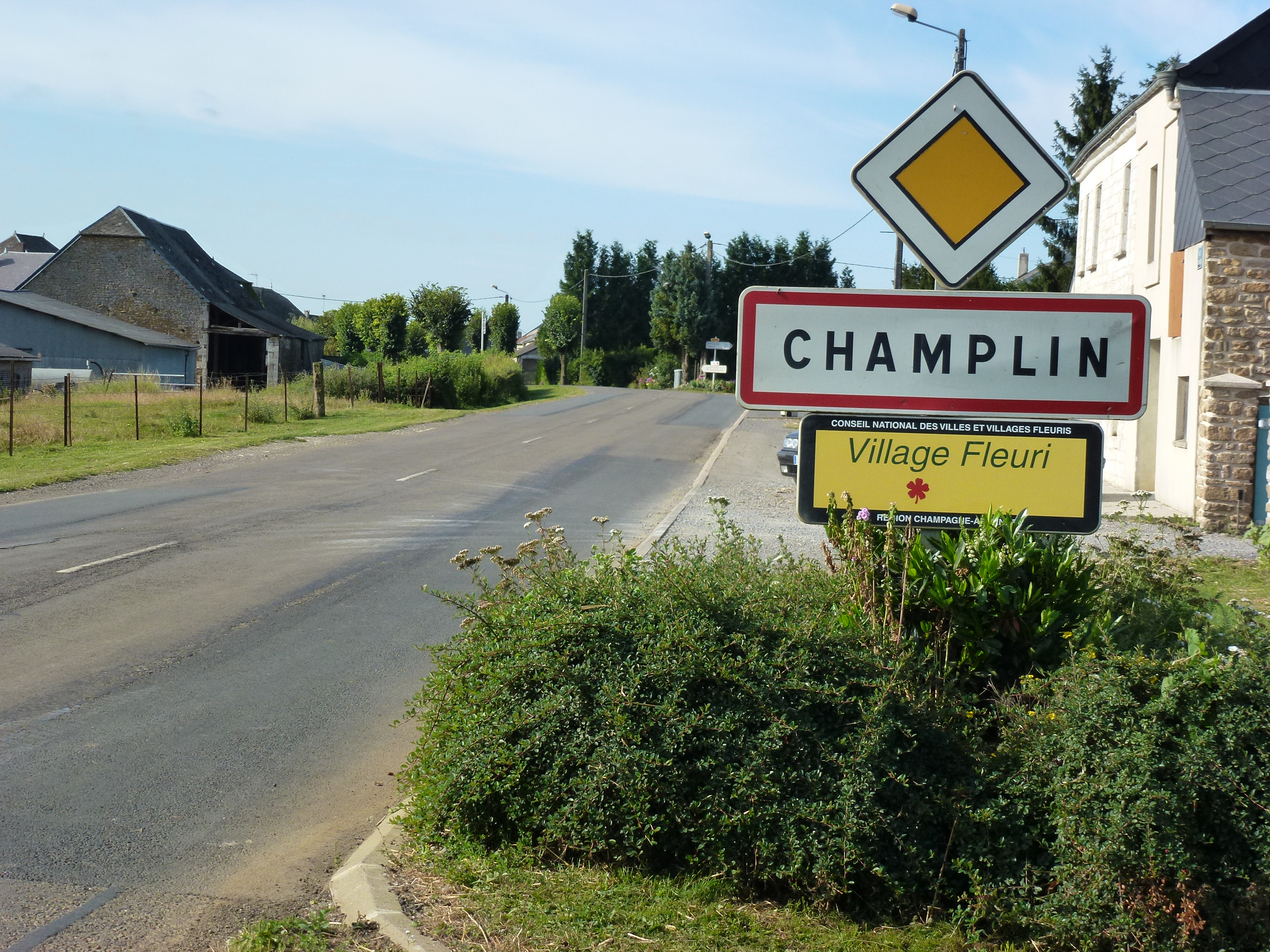 Champlin (Ardennes) city limit sign